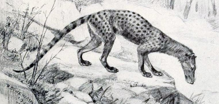 Cropped image of taxon in file name